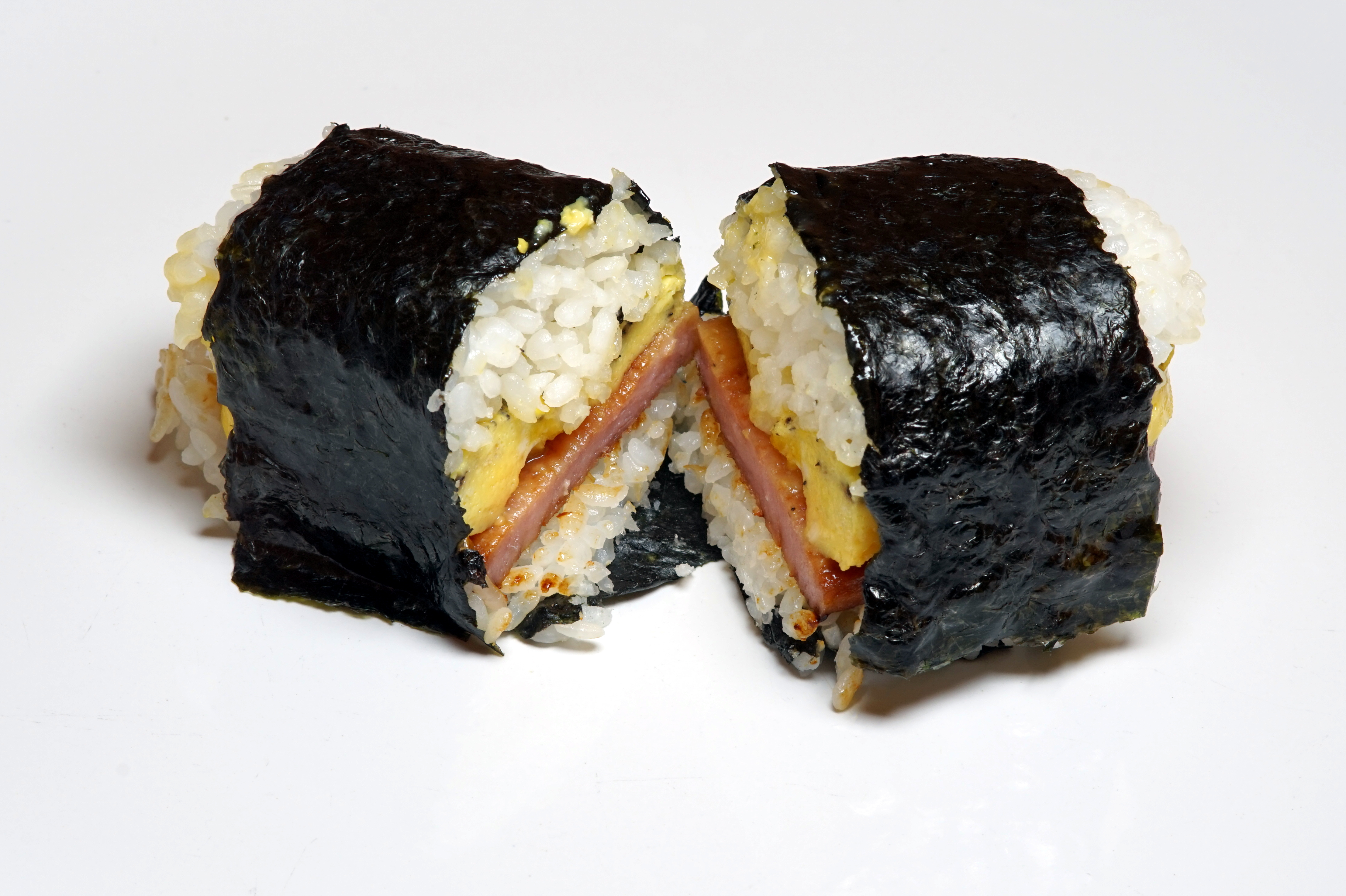 Spam musubi variant which includes egg. Spam musubi may take many forms, either with the spam on top of rice, or sandwiched between rice. Other possible additions include pickled radish and furikake.